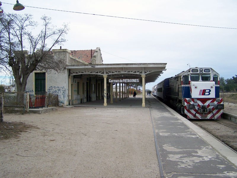 Carmen de Patagones train station